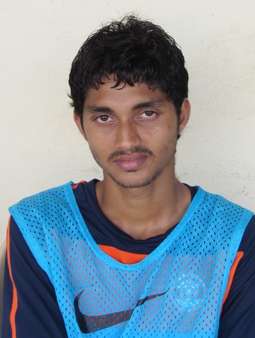 Usman Ashik (born June 8, 1992) is an Indian footballer who currently plays for Chirag United Club Kerala in the I-League.